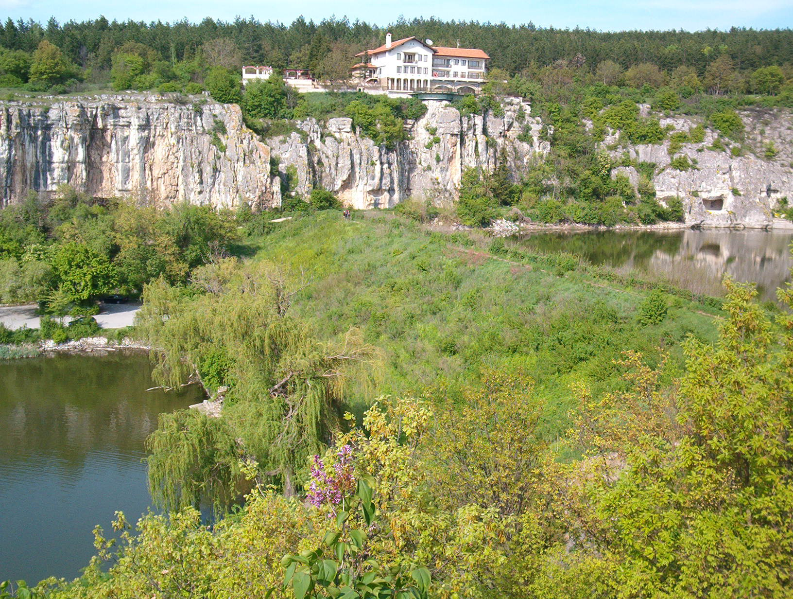 Kaylaka Park near Pleven, Bulgaria